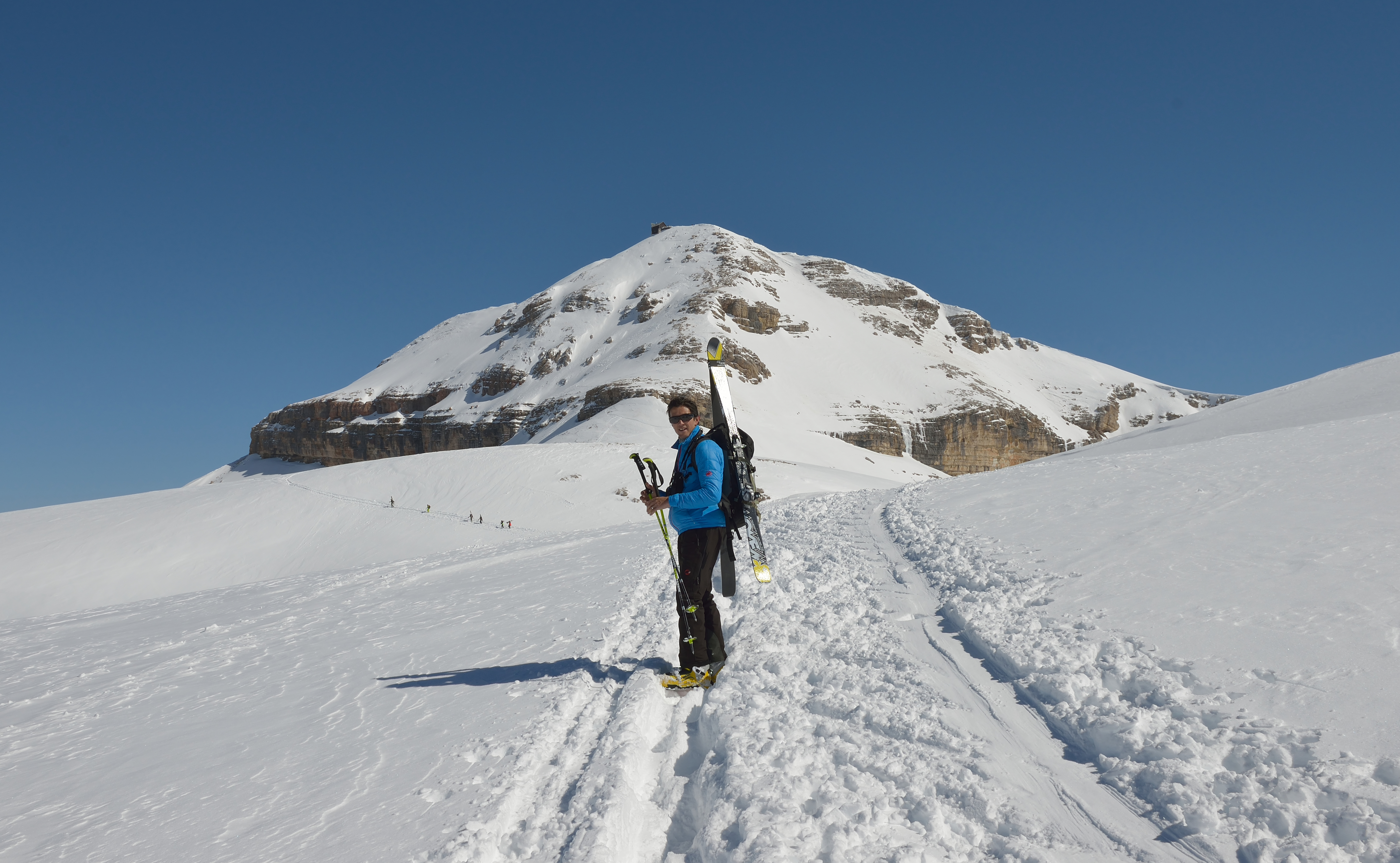 Catores guide Manfred Stuffer and "Piz Boè" 3152 m highest peak of the Sella Group, South Tyrol